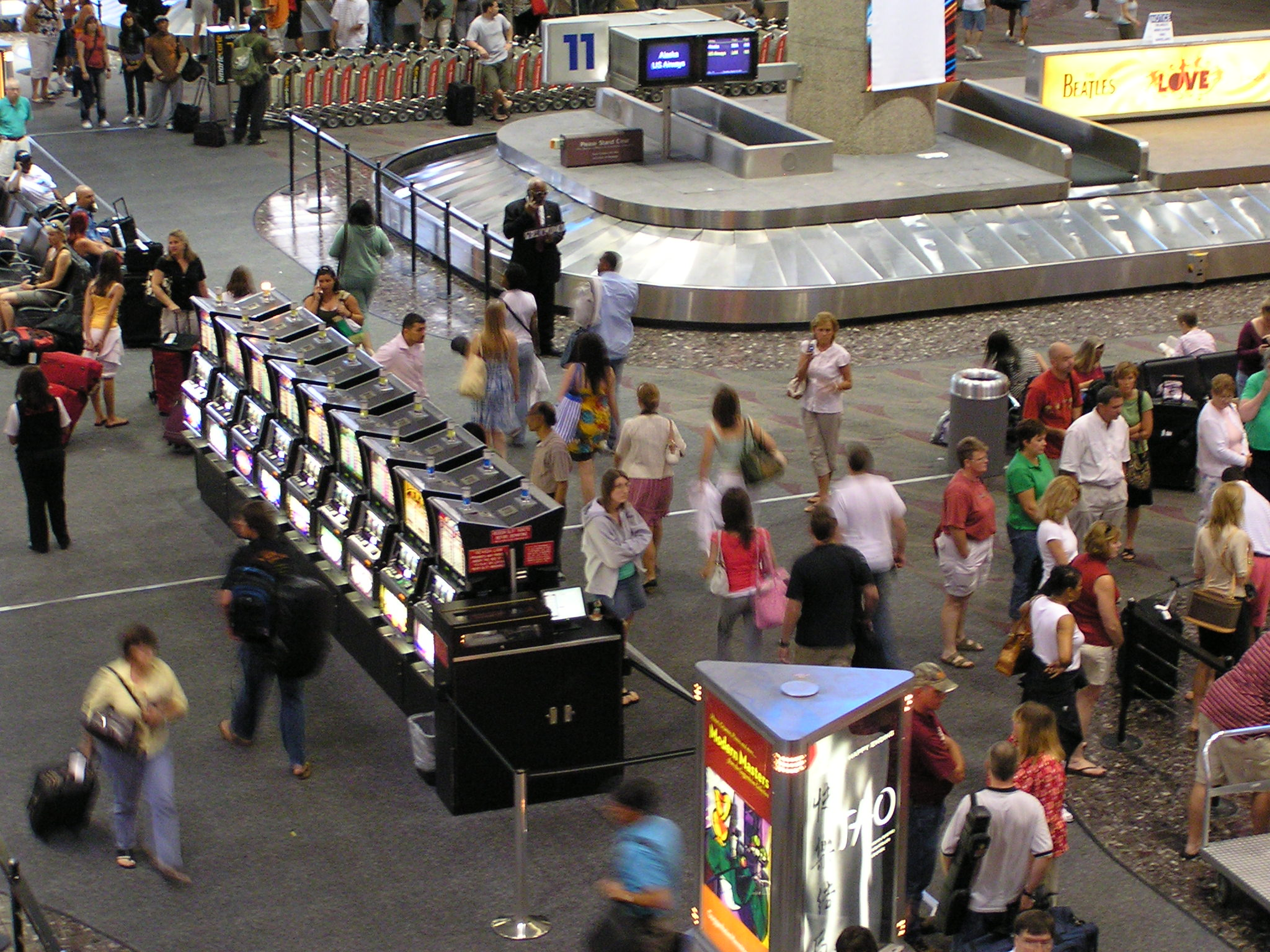 Slot machines at the Las Vegas Airport baggage claim.